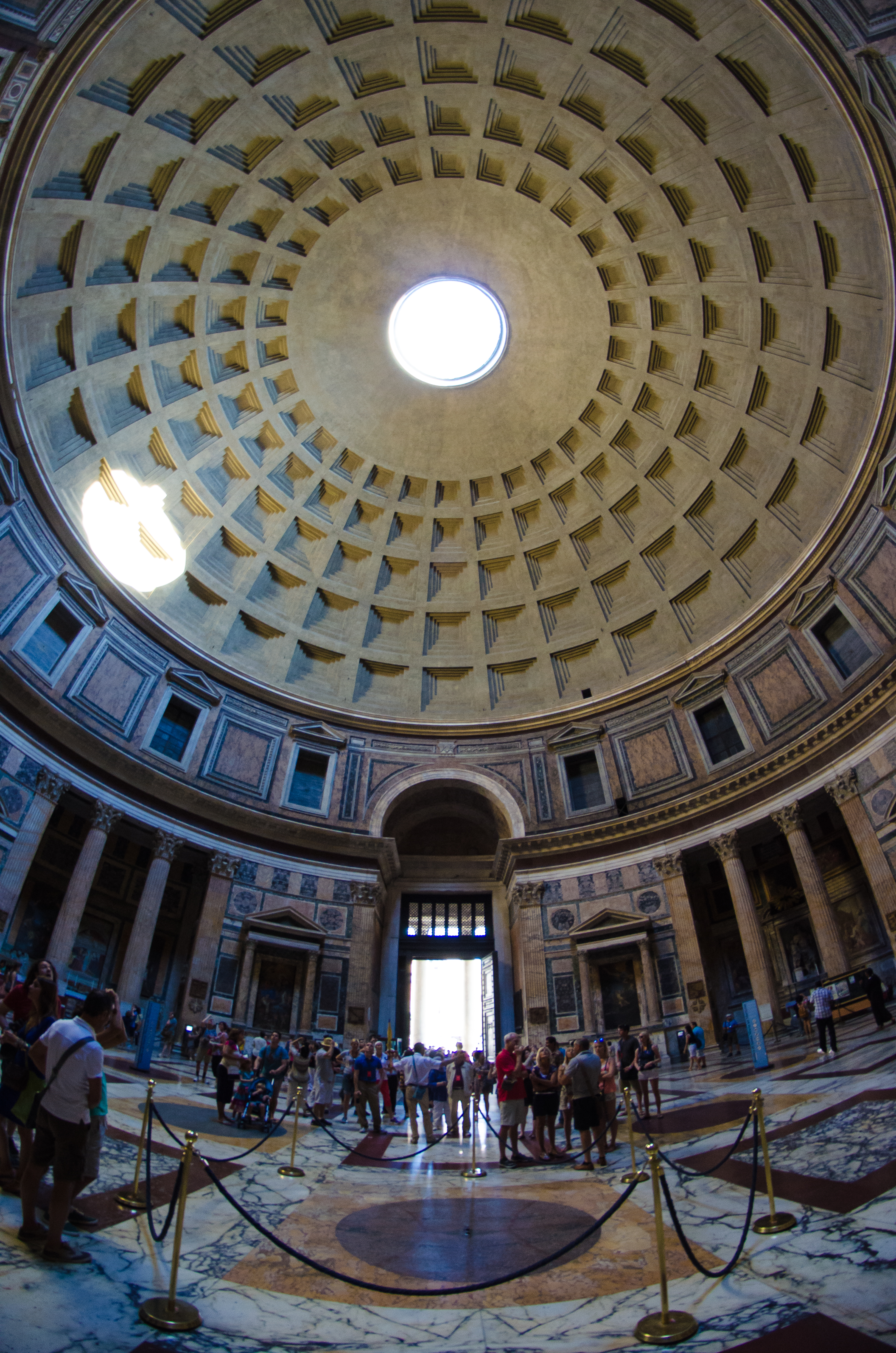 Pantheon